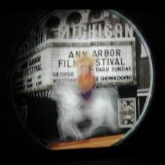 digital photo by myself, of a short advertising animation in the ann arbor film festival Summary digital photo by myself, of a short advertising animation in the ann arbor film festival